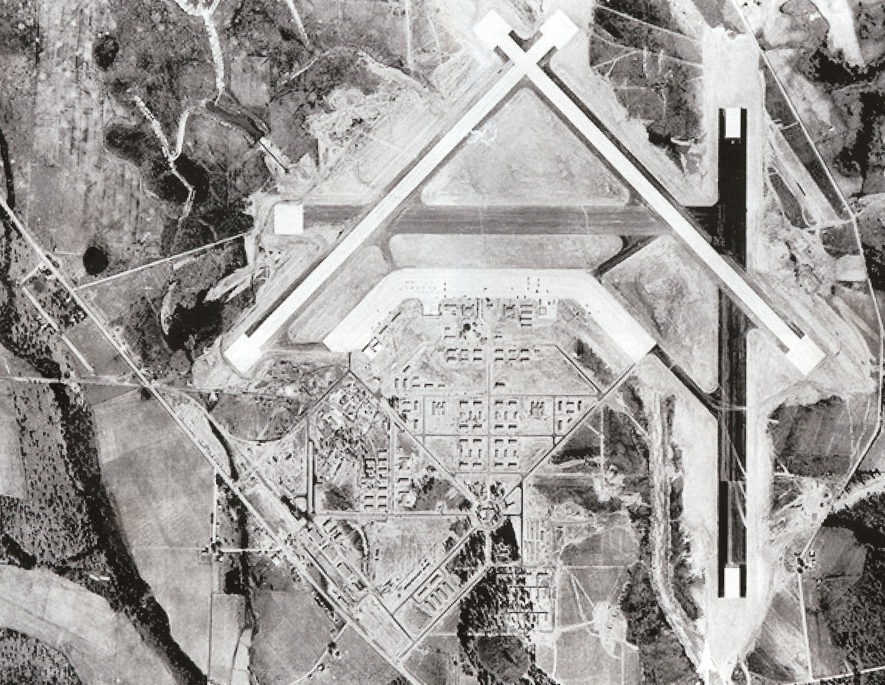 Spence Army Airfield, Georgia, about 1943